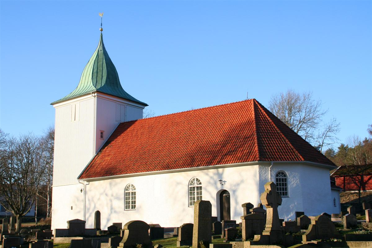 Hålta Church